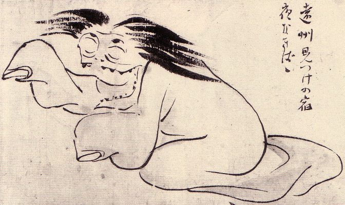 Yonaki-babaa (夜泣き婆) from the Buson Youkai Emaki (蕪村妖怪絵巻)